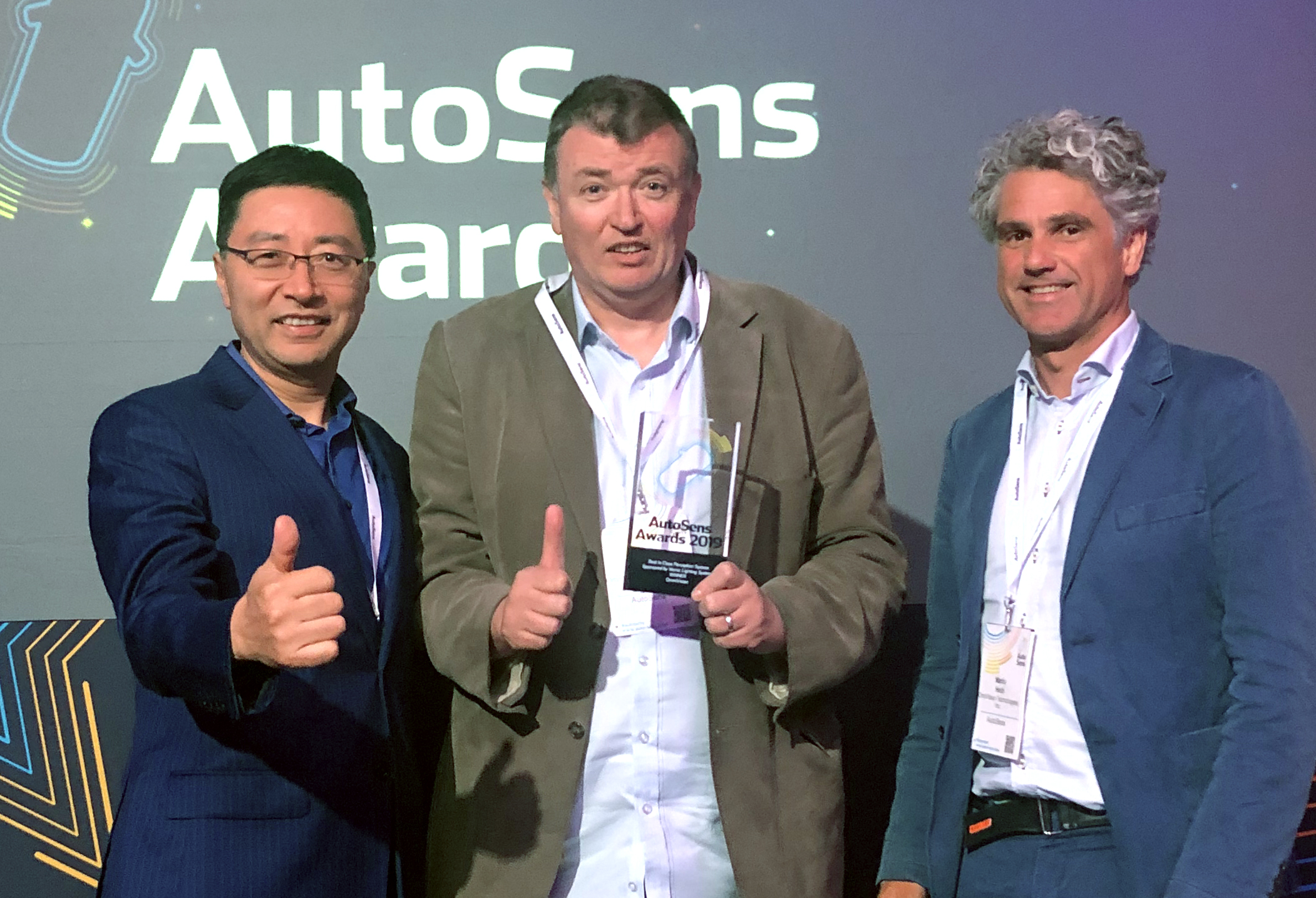 OmniVision Executives accept the 2018 AutoSens Brussels Silver Award for Hardware Innovation.